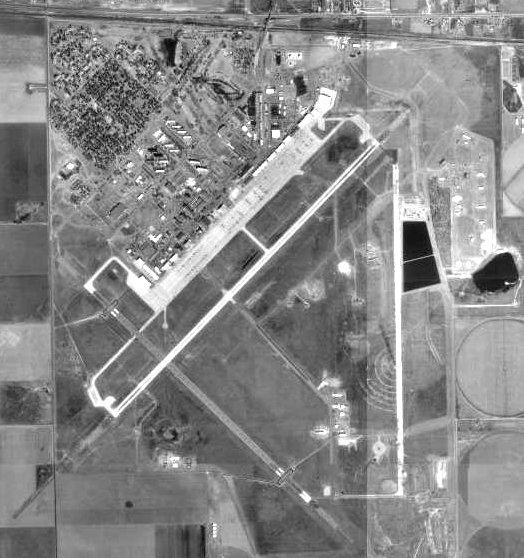 USGS digital orthophoto of Cannon Air Force Base in Clovis, New Mexico, United States